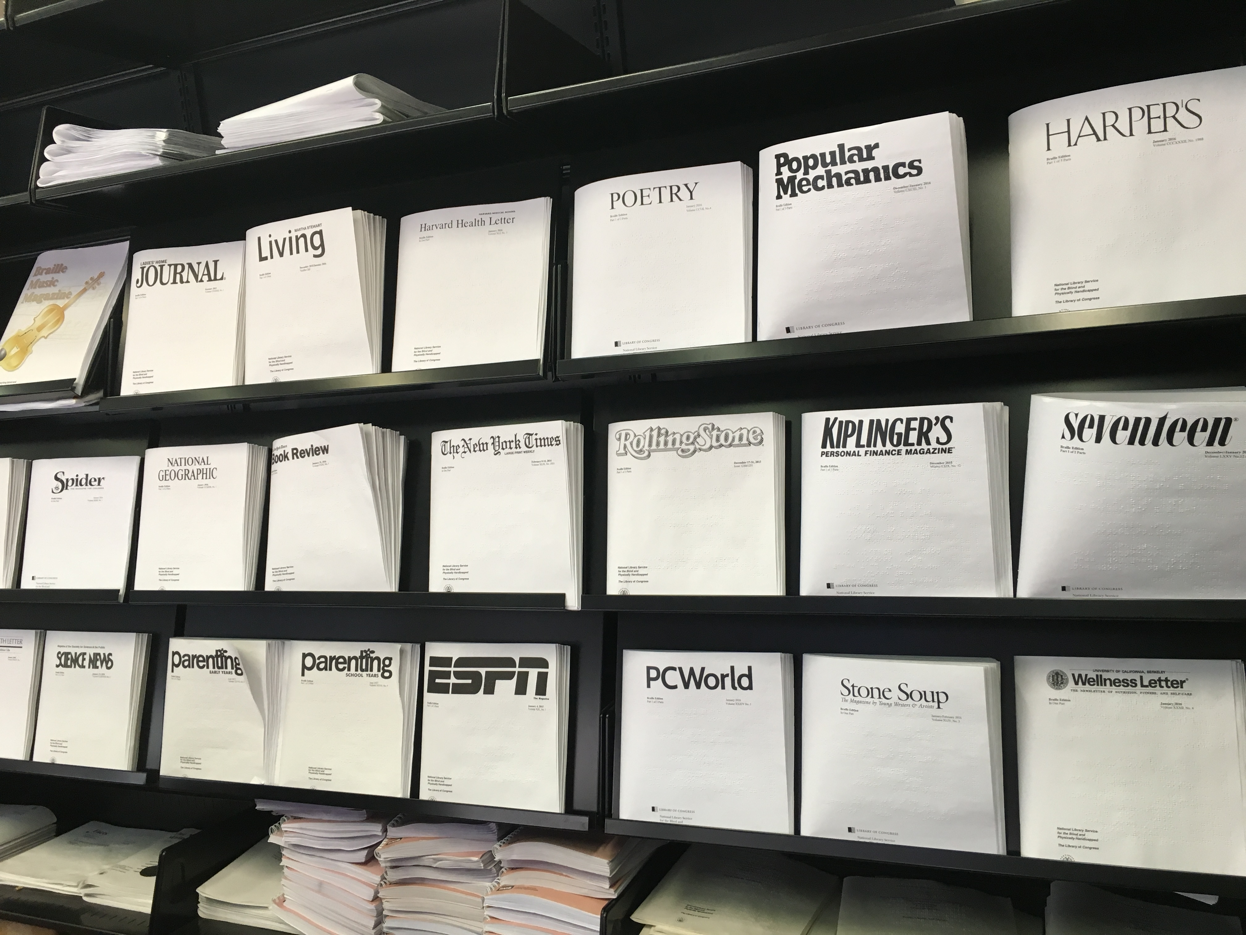 Braille magazines at DC public library